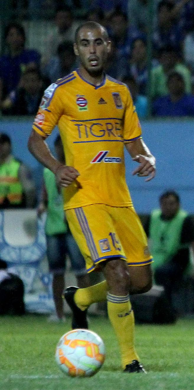 Argentine player Guido Pizarro